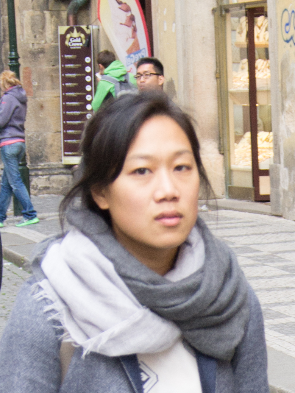 Priscilla Chan in Prague (2013).